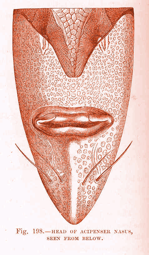 Head of Acipenser nasus, Seen from Below Subject: Acipenser Tag: Fish